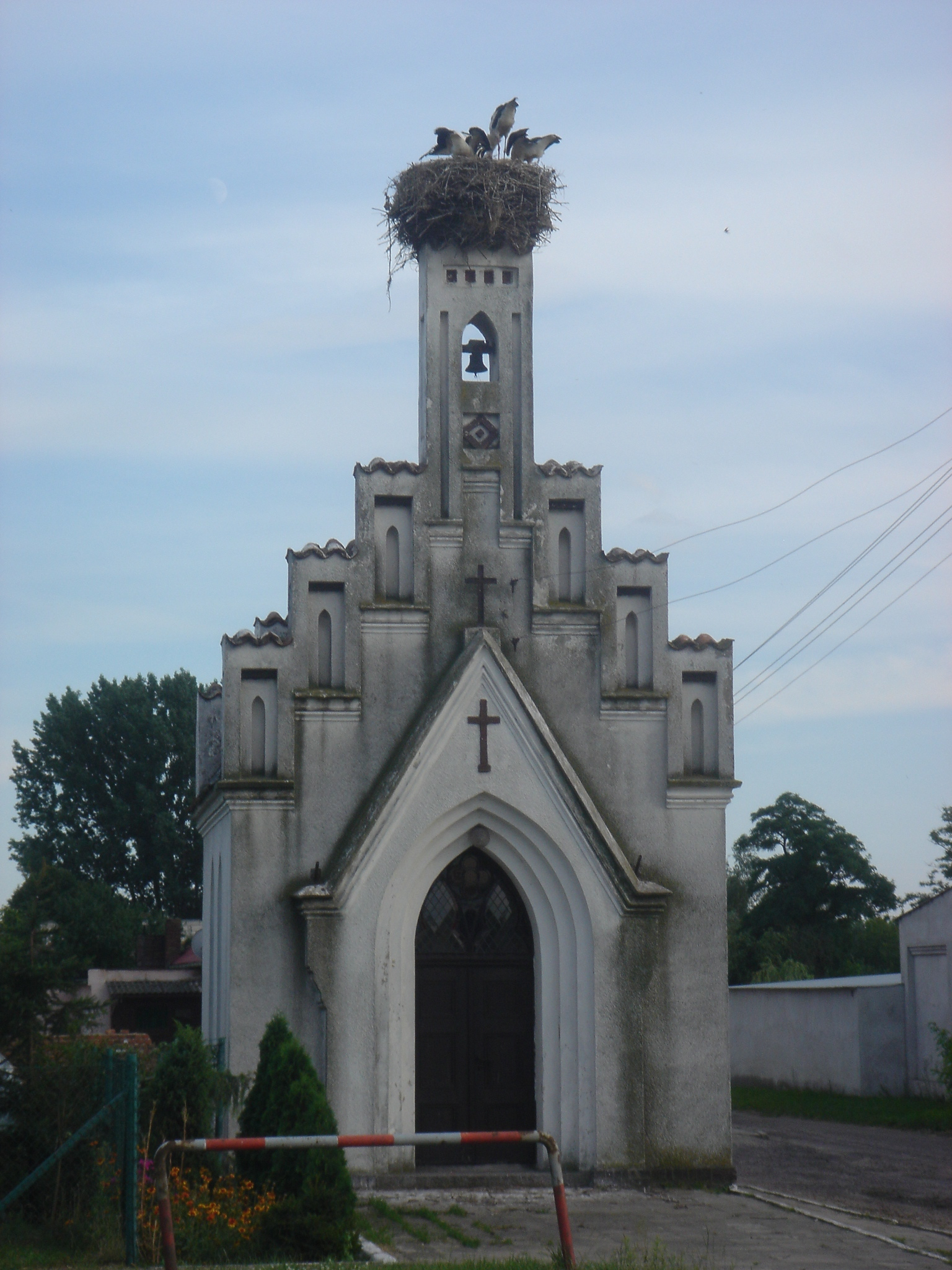 A White Stork nest in Bedlewo, Poland